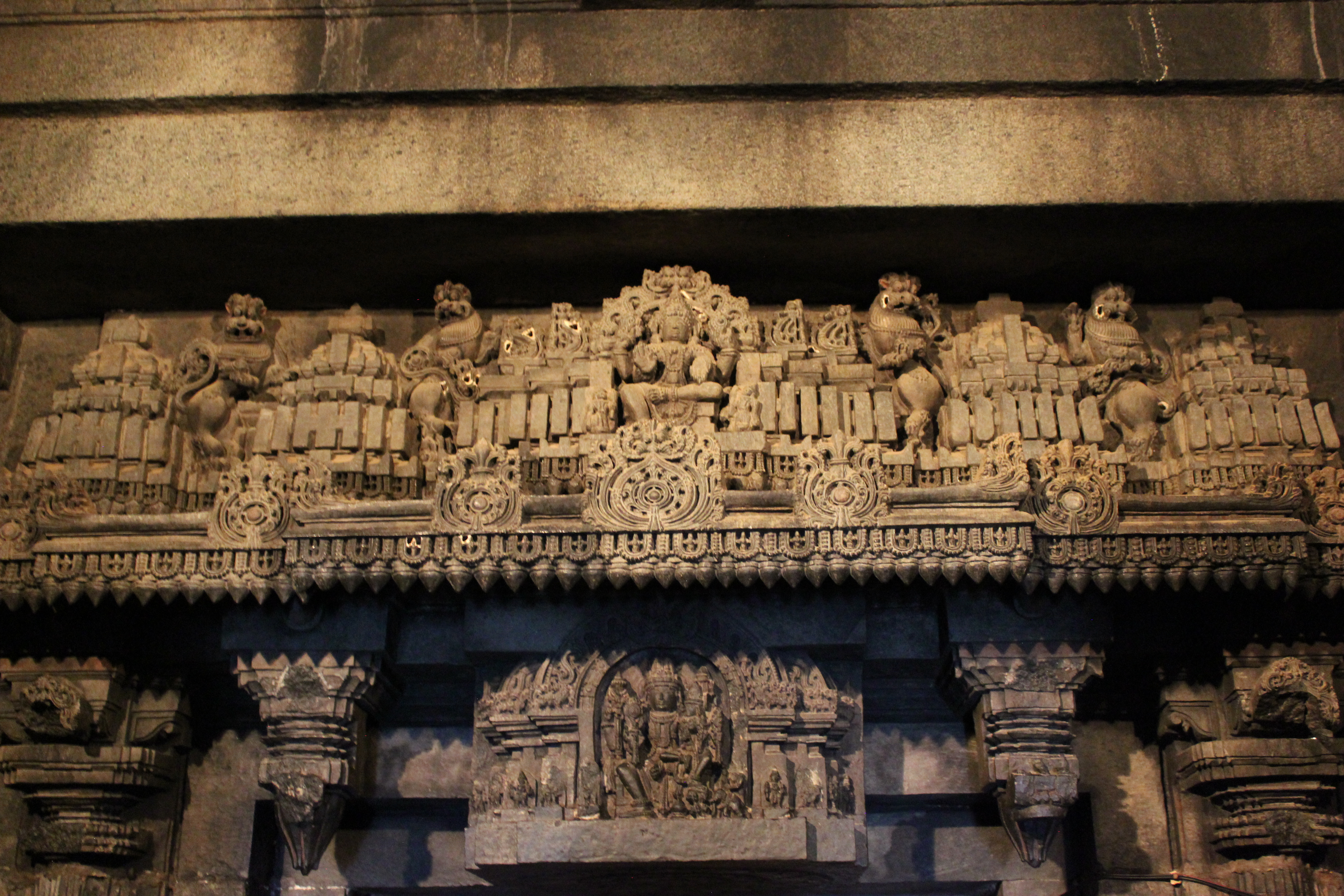 Photograph taken by self (Dinesh Kannambadi) at the Chennakeshava Temple (also called Keshava or Chennakesava) in Somanathapura, Karnataka state, India. The temple was built in 1268 C.E. under Hoysala king Narasimha III, when the Hoysala Empire was the major power in South India.